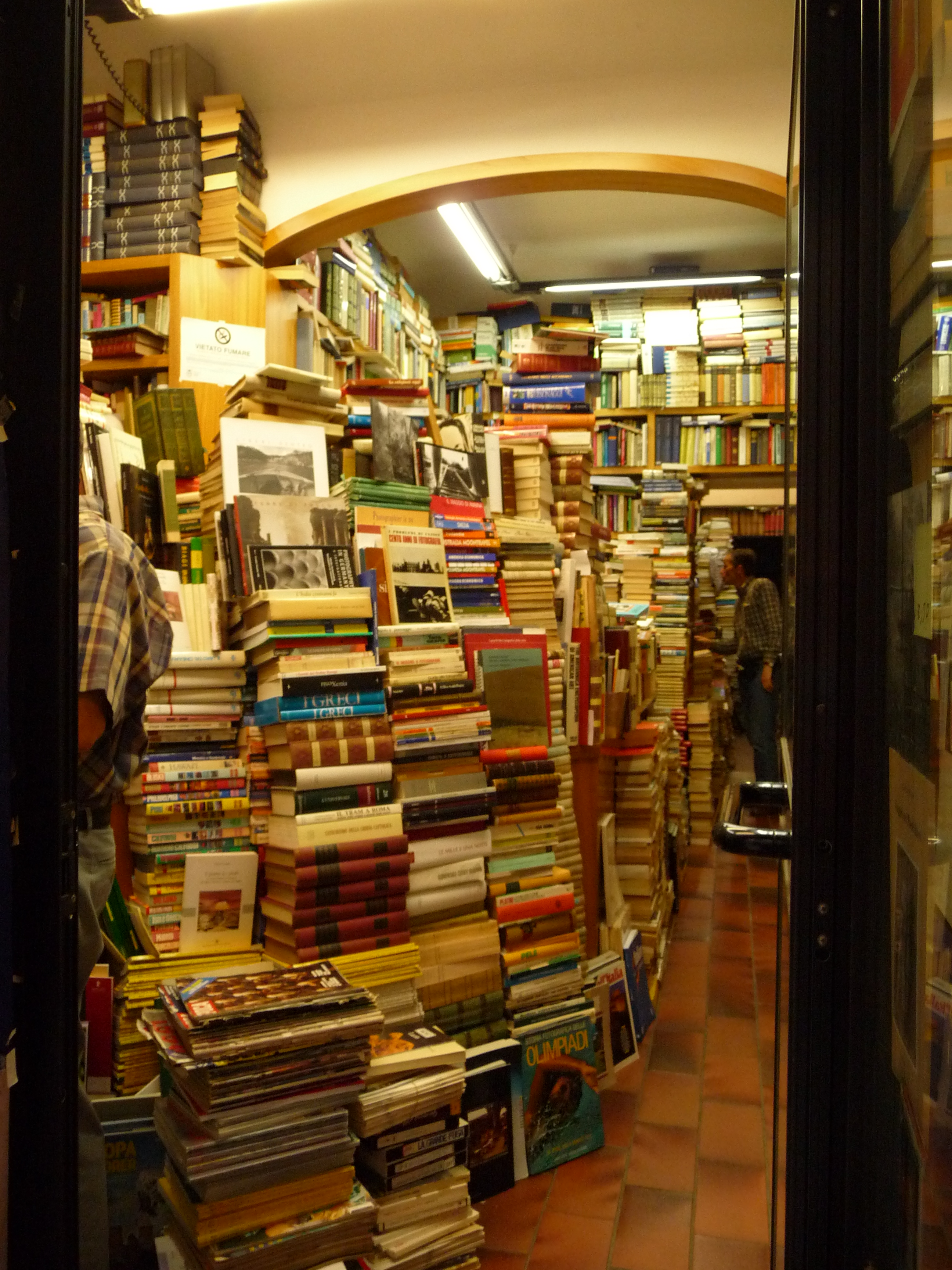 Bookstore in Florence, Italy